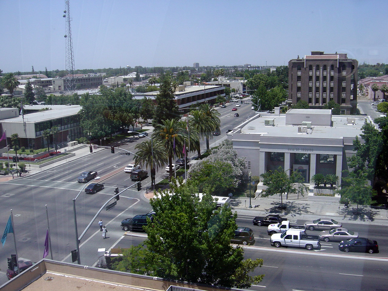 Bakersfield, California, USA. City Hall and Police Headquarters at left and Hall of Records at right.